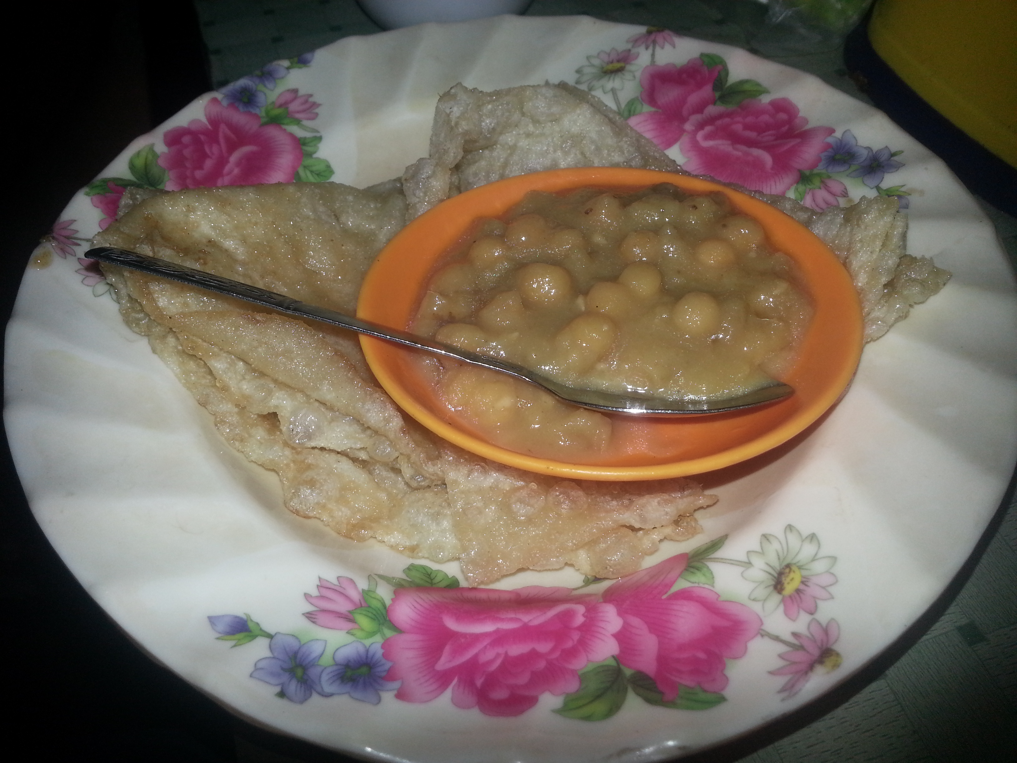 Myanmar Prata with bean sell in teashop